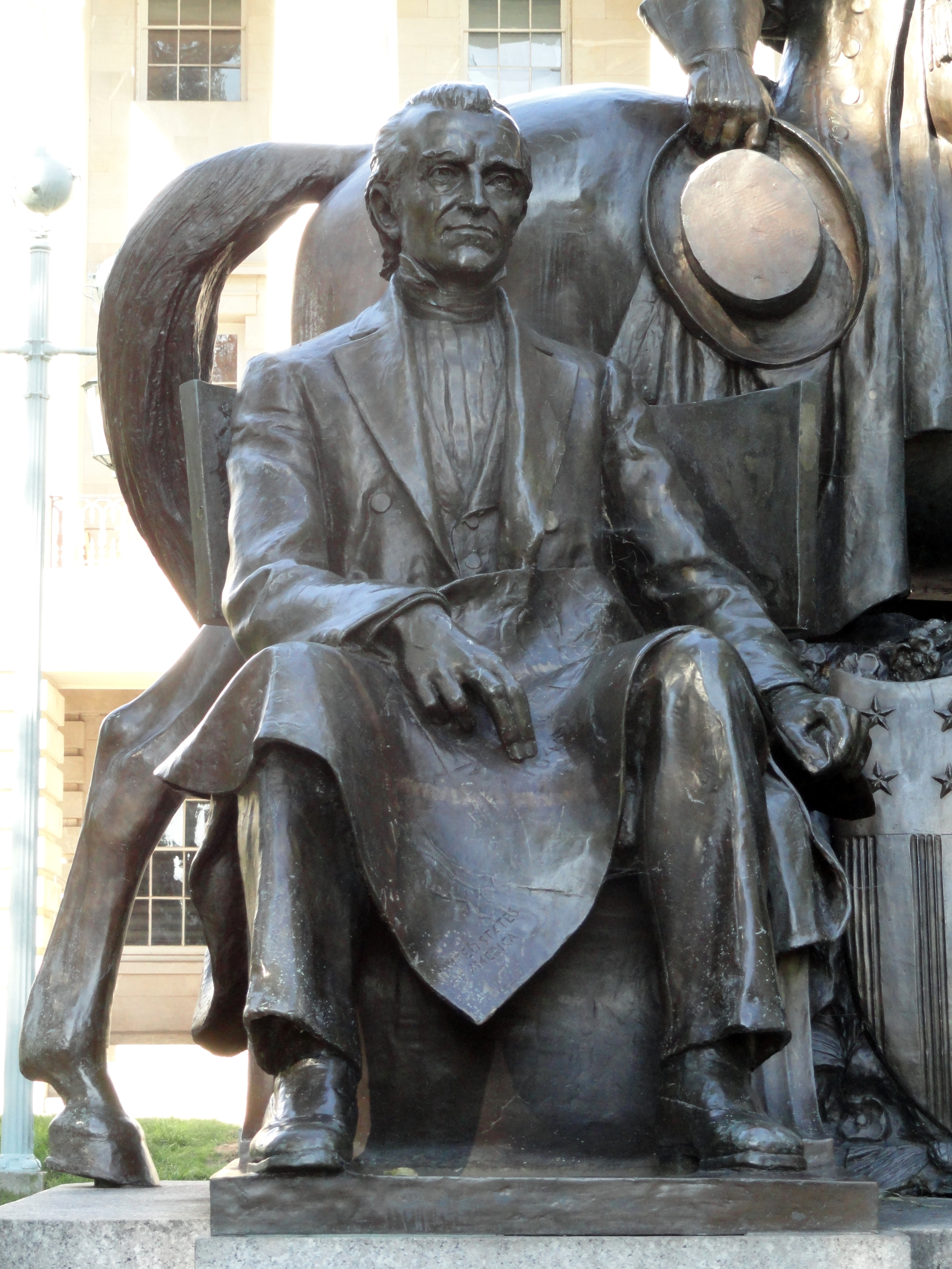 Presidents North Carolina Gave the Nation, memorial by sculptor Charles Keck. This work honors the three presidents born in North Carolina: Andrew Jackson of Union County, seventh president of the United States (1829-1837); James Knox Polk of Mecklenberg County, eleventh president of the United States (1845-1849); and Andrew Johnson of Wake County, seventeenth president of the United States (1865-1869). Memorial located on the grounds of the North Carolina State Capitol, Raleigh, North Carolina, USA.